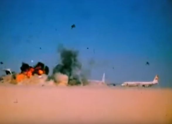 Dawson field aircrafts blown up, Jordan, 6 September 1970